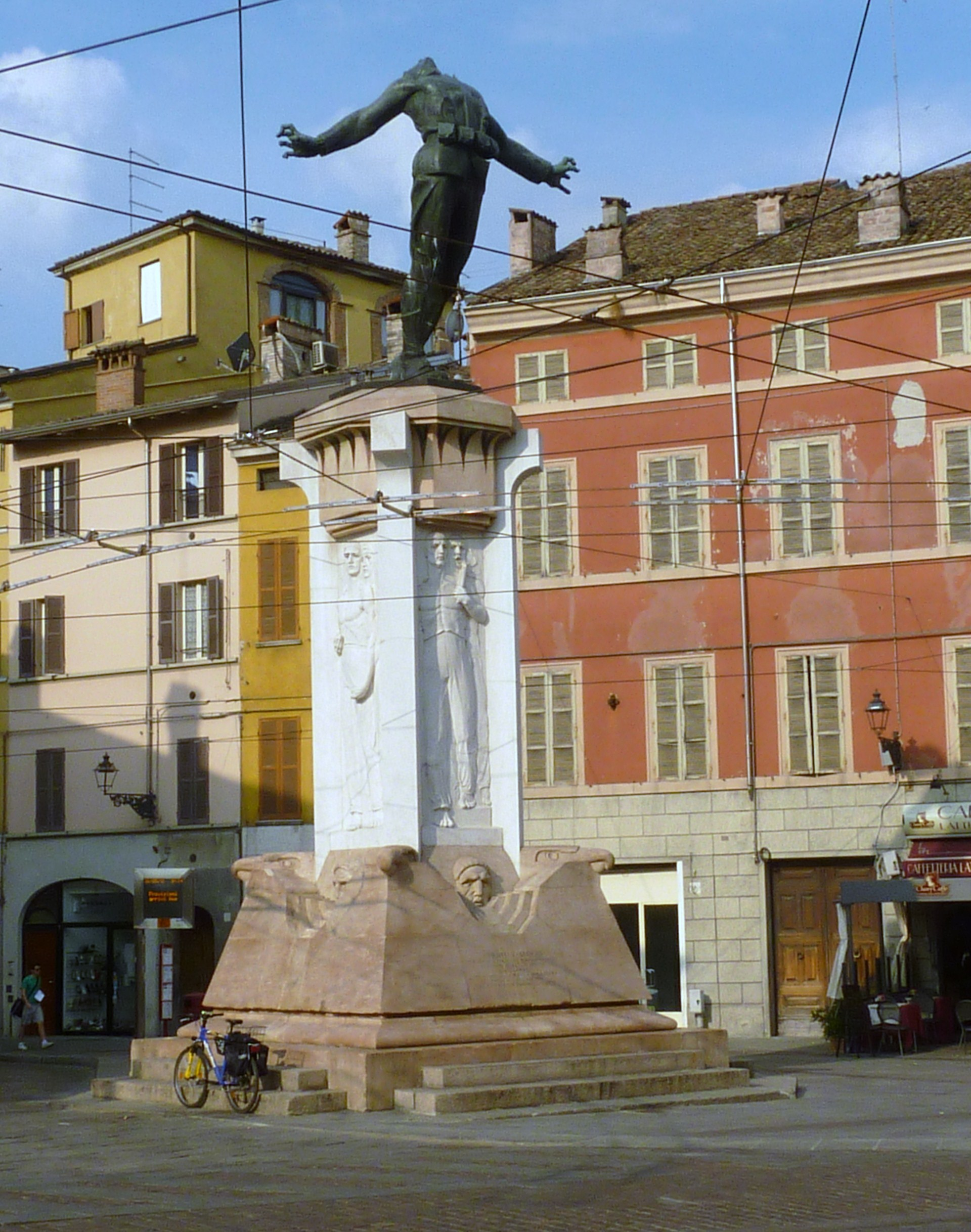 Monument to Filippo Corridoni in Parma, by the sculptor Alessandro Marzaroli.